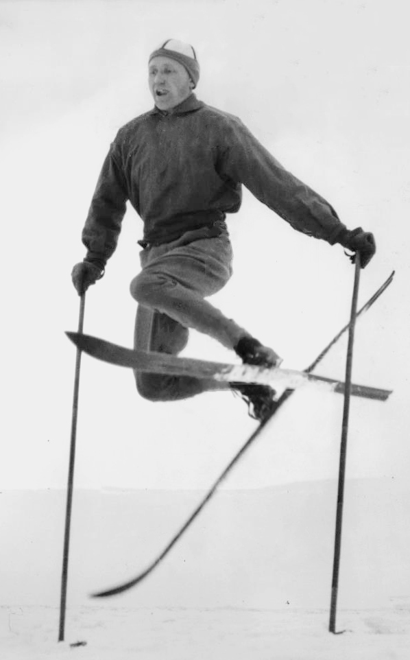 1935 Press Photo U.S. skier Nils Backstrom to compete in 1936 Olympics